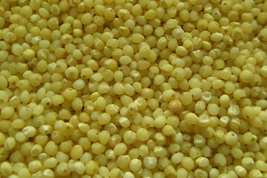 Peeled proso millet (close-up shot)